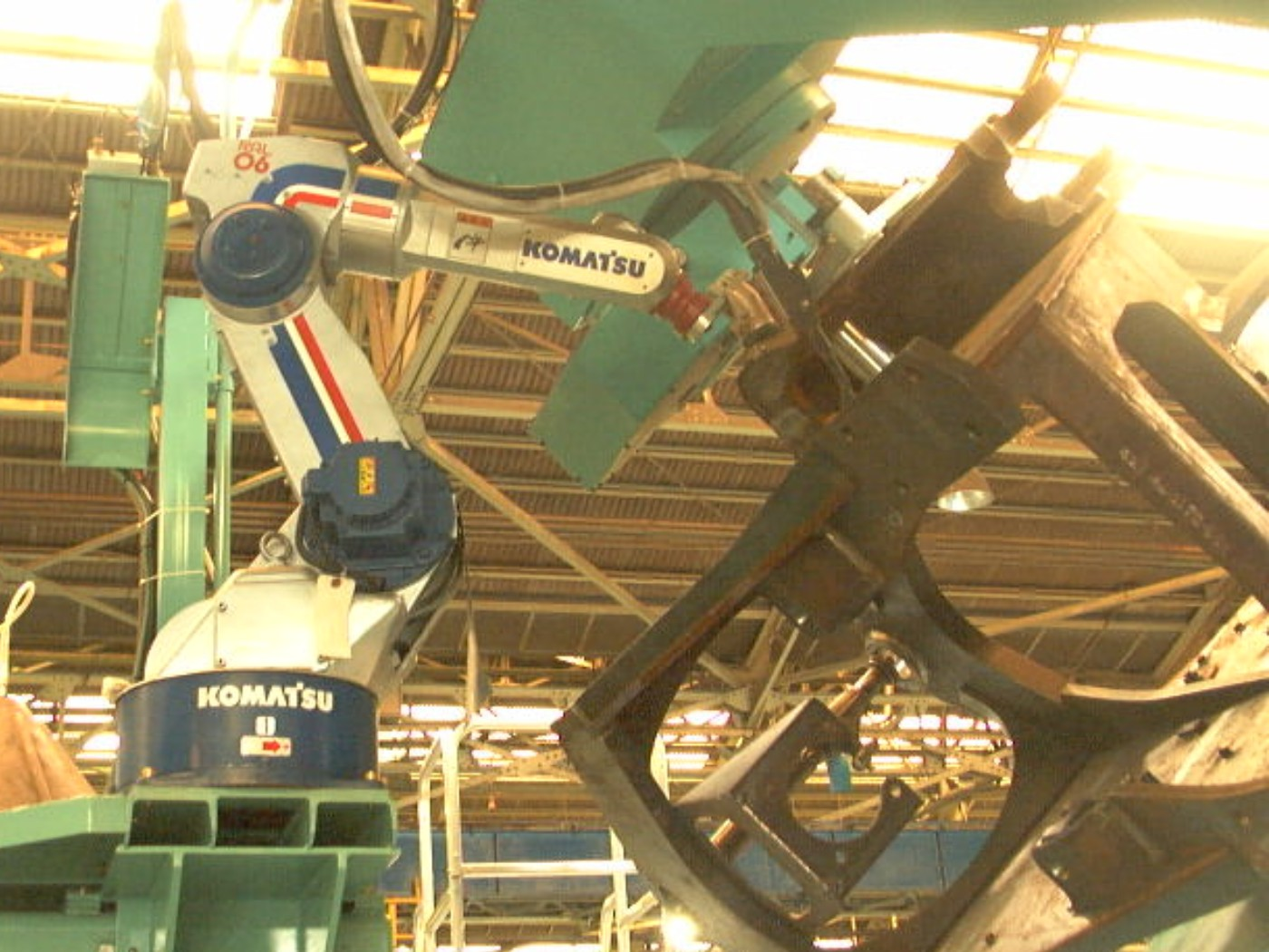 A photo of welding robot.